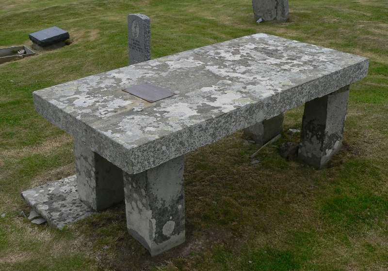 Cross Kirk, Eshaness, Mainland, Shetland, Scotland - grave of Donald Robertson